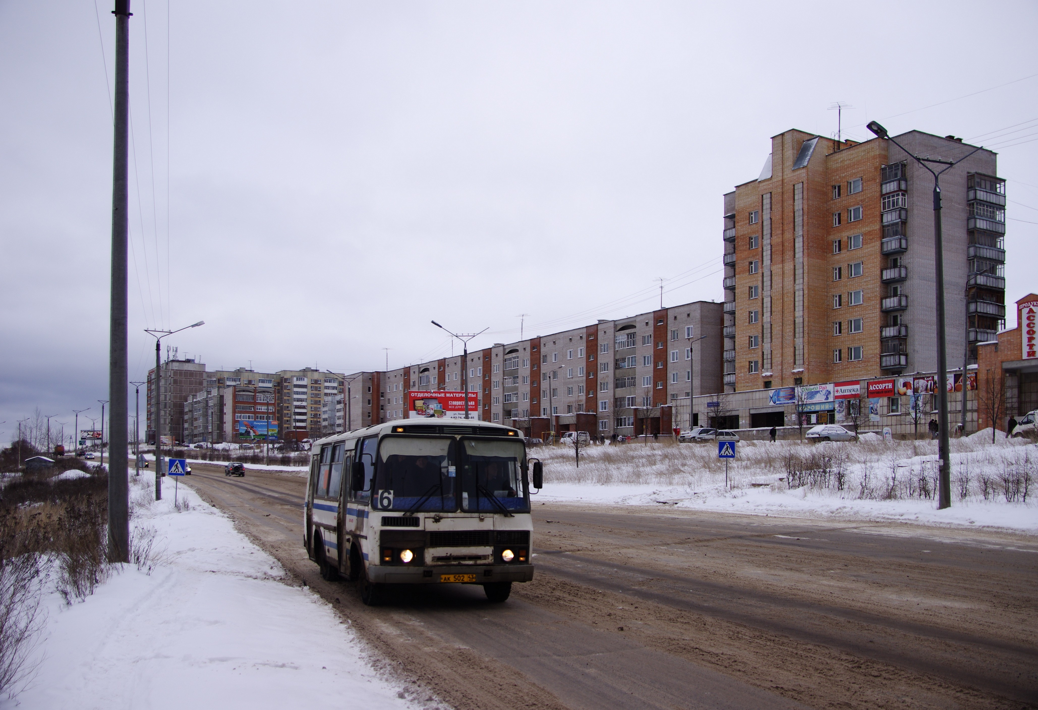 Kirovo-Chepetsk, ulitsa 60 let Oktyabra. Microdistrict 9.